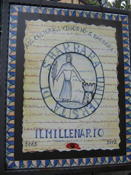 The plate the millennium of the Italian village of Santa Barbara hung in 2005